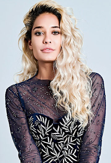 Lisa Haydon snapped wearing Mishru’s Supernova collection, Aug 28, 2018